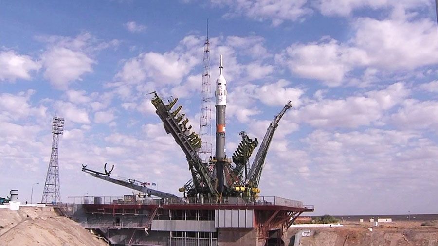 The Soyuz TMA-18M rocket sits atop its launch pad at the Baikonur Cosmodrome in Kazakhstan after rolling out from the Integration Facility Monday morning.